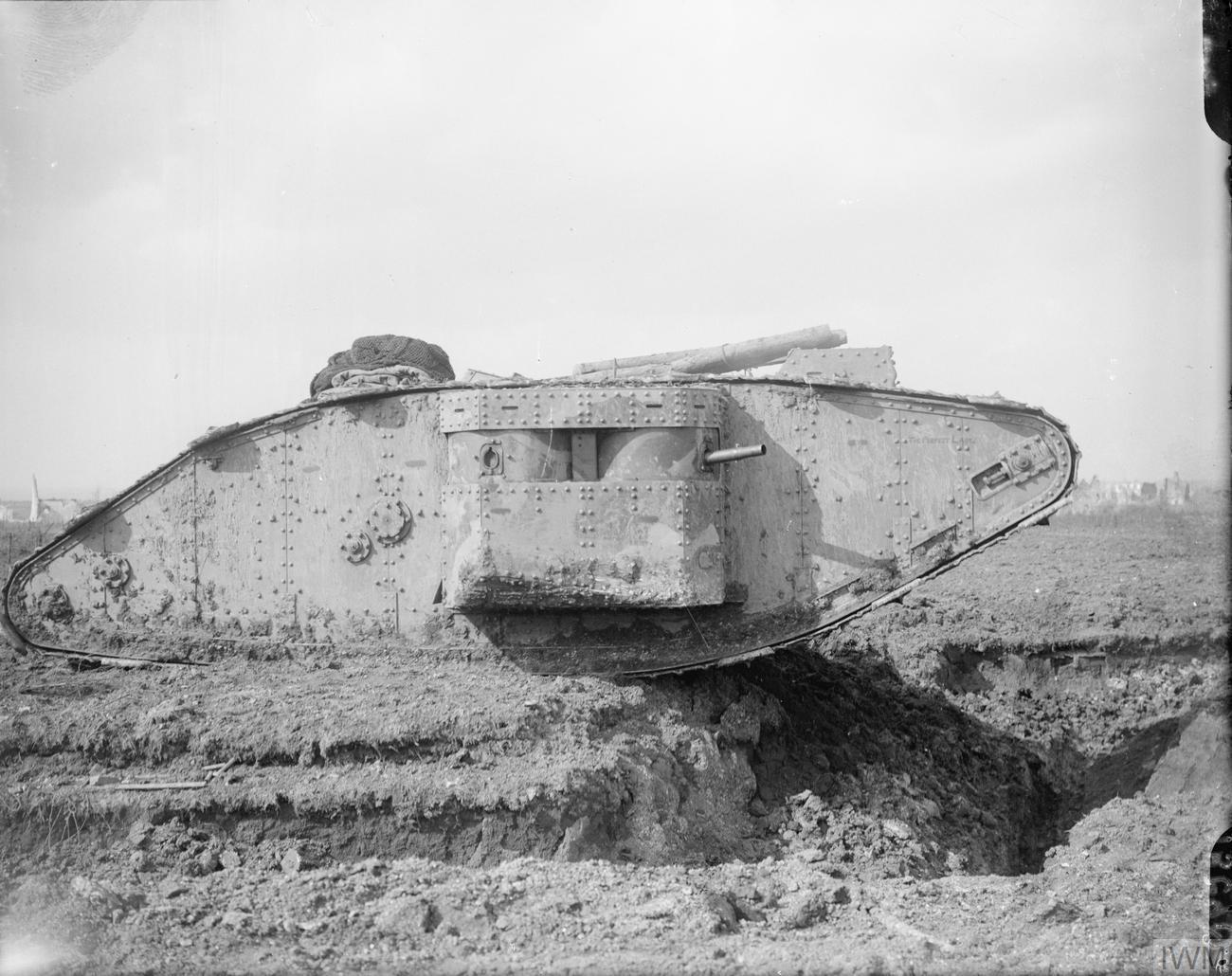 British tank (probably C21, "Perfect Lady") crossing a trench whilst on its way to take part in the Battle of Arras.